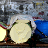 Yak butter in Lhasa street shop, cropped square version of photo by Carla Antonini, optimized for display at 100x100